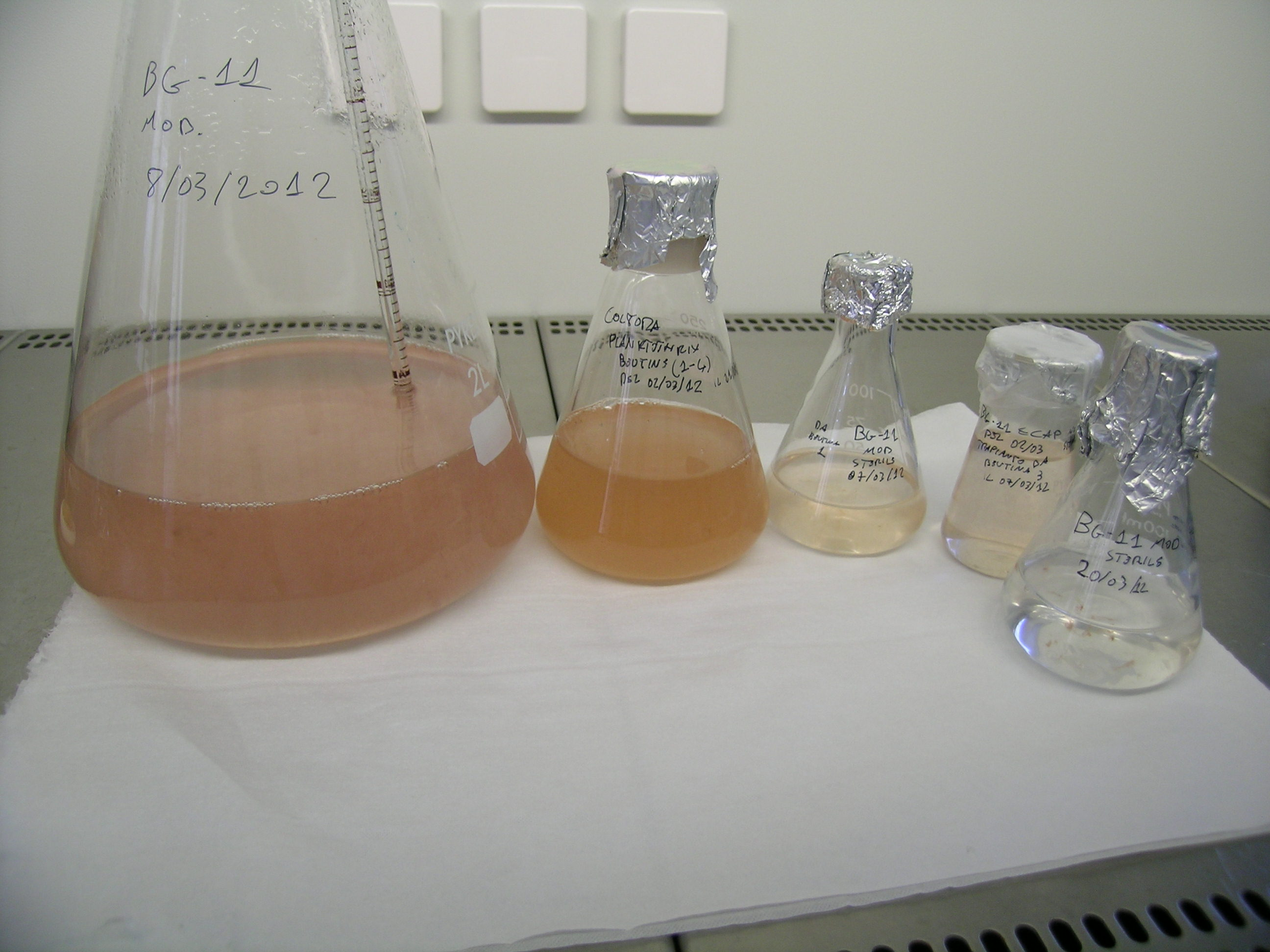 colture of Planktothrix rubescens in BG - 11 medium